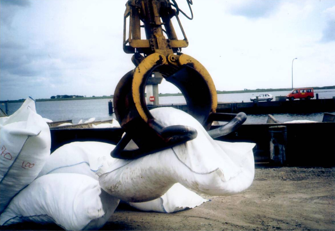 Nonwoven geotextile containers have advantages compared to woven geotextile containers because of high robustness and large elongation at break.